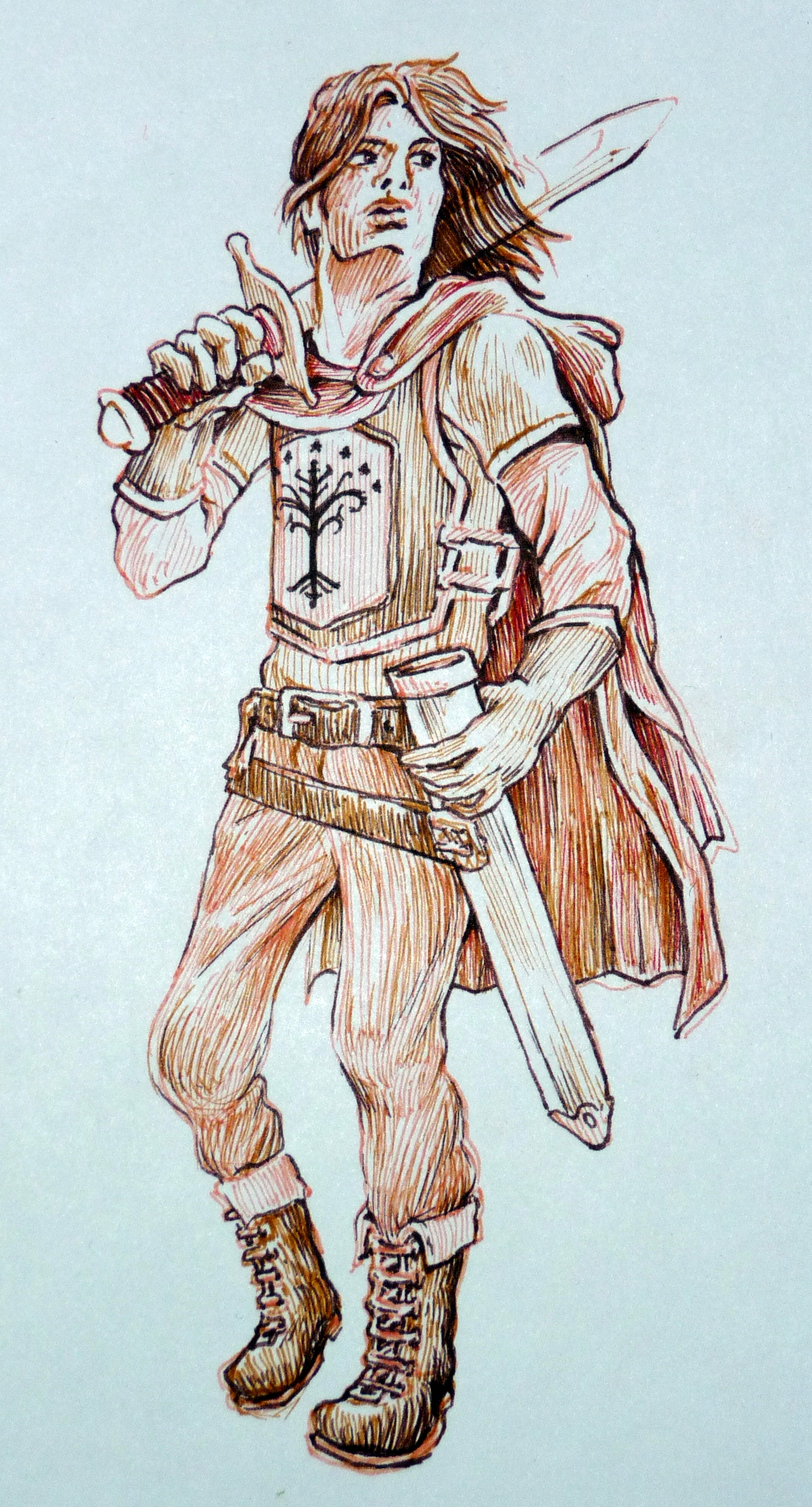 Faramir, Captain of Gondor